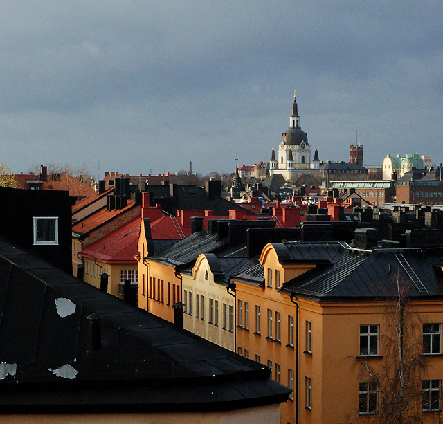 Katarina Church in the Södermalm area of Stockholm, Sweden